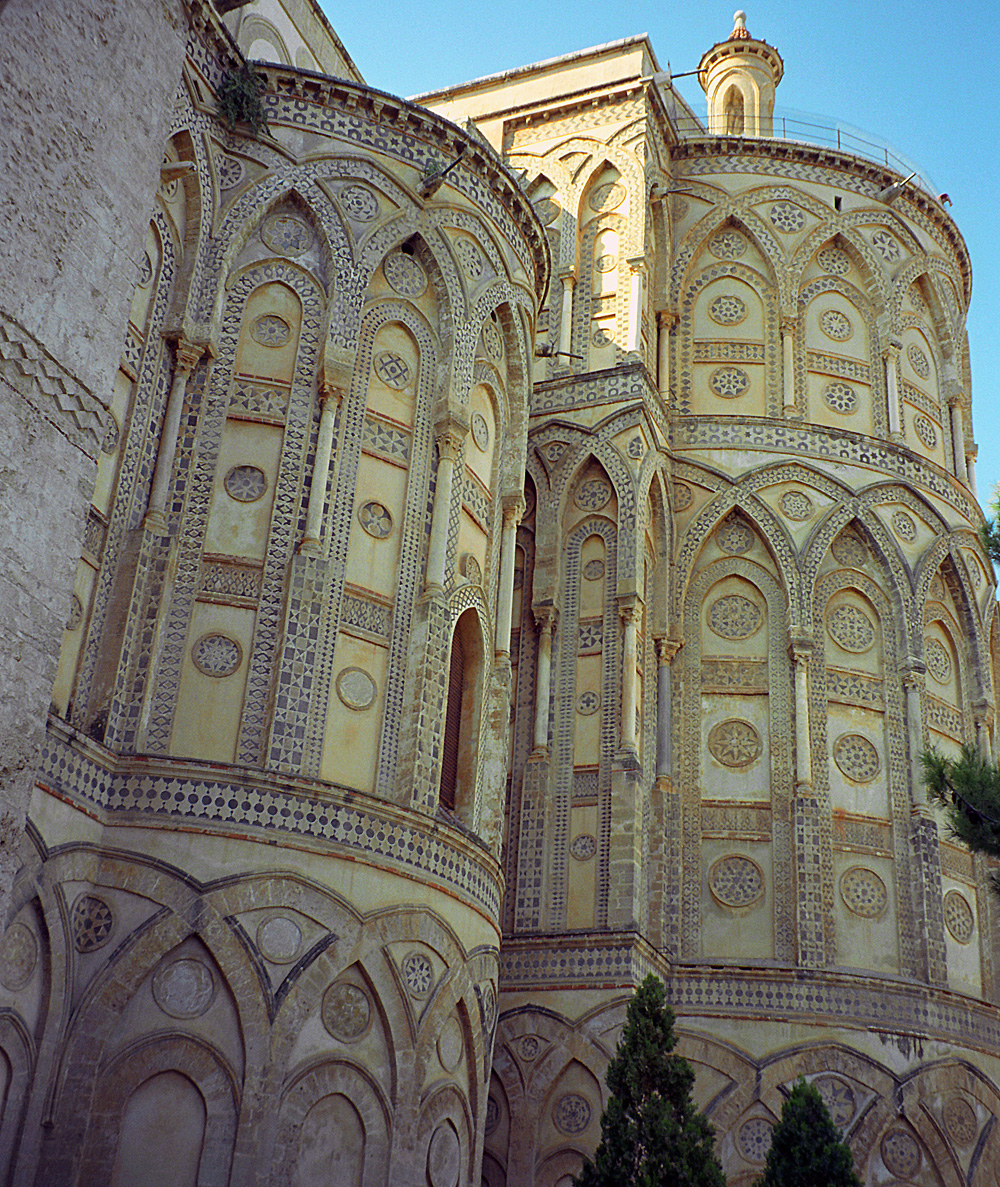 Sicily, The Cathedral of Monreale, Normal Style, ca 1200